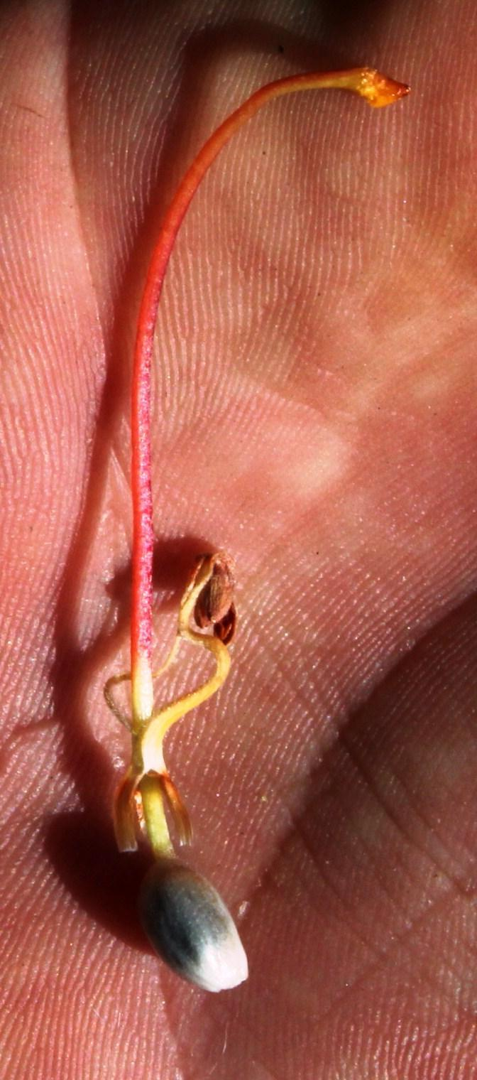 Detail of the flower of Leucospermum cordatum, photographed by Tony Rebelo at Houwhoek Pass on 21 December 2012